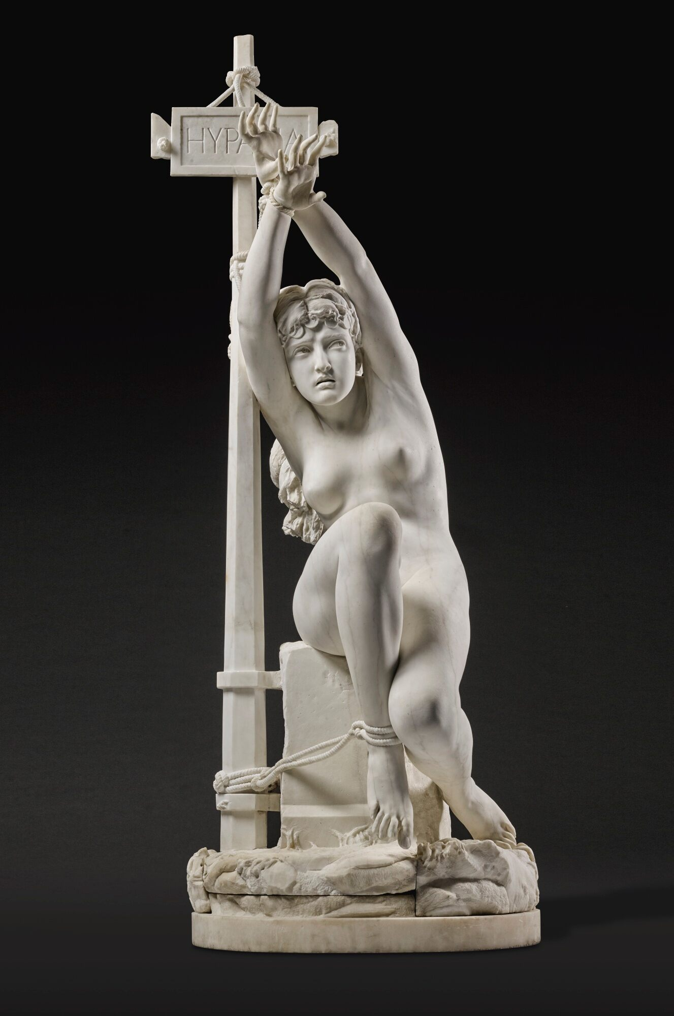 Hypatia by Odoardo Tabacchi